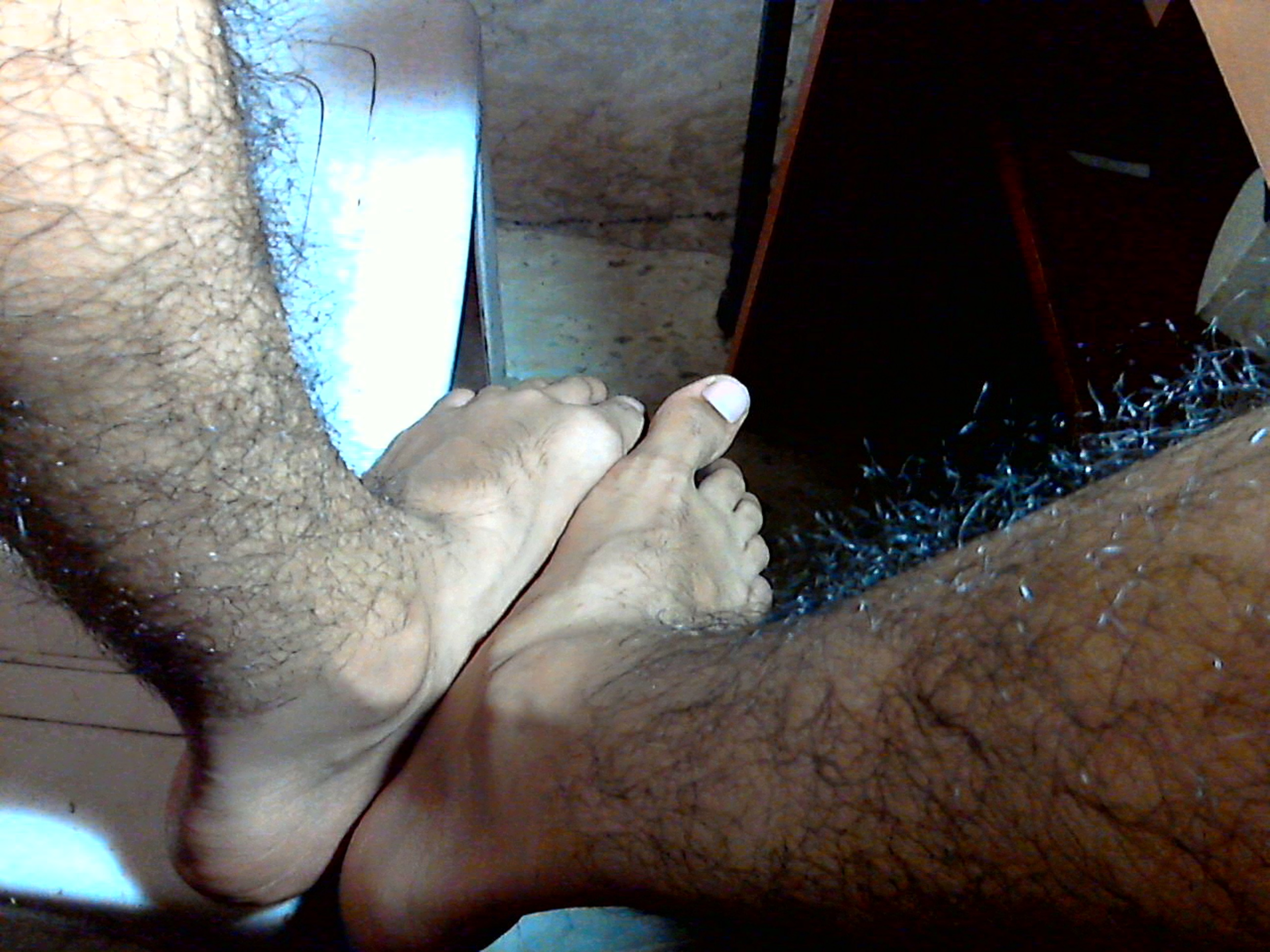 Leg hair of 15 year old